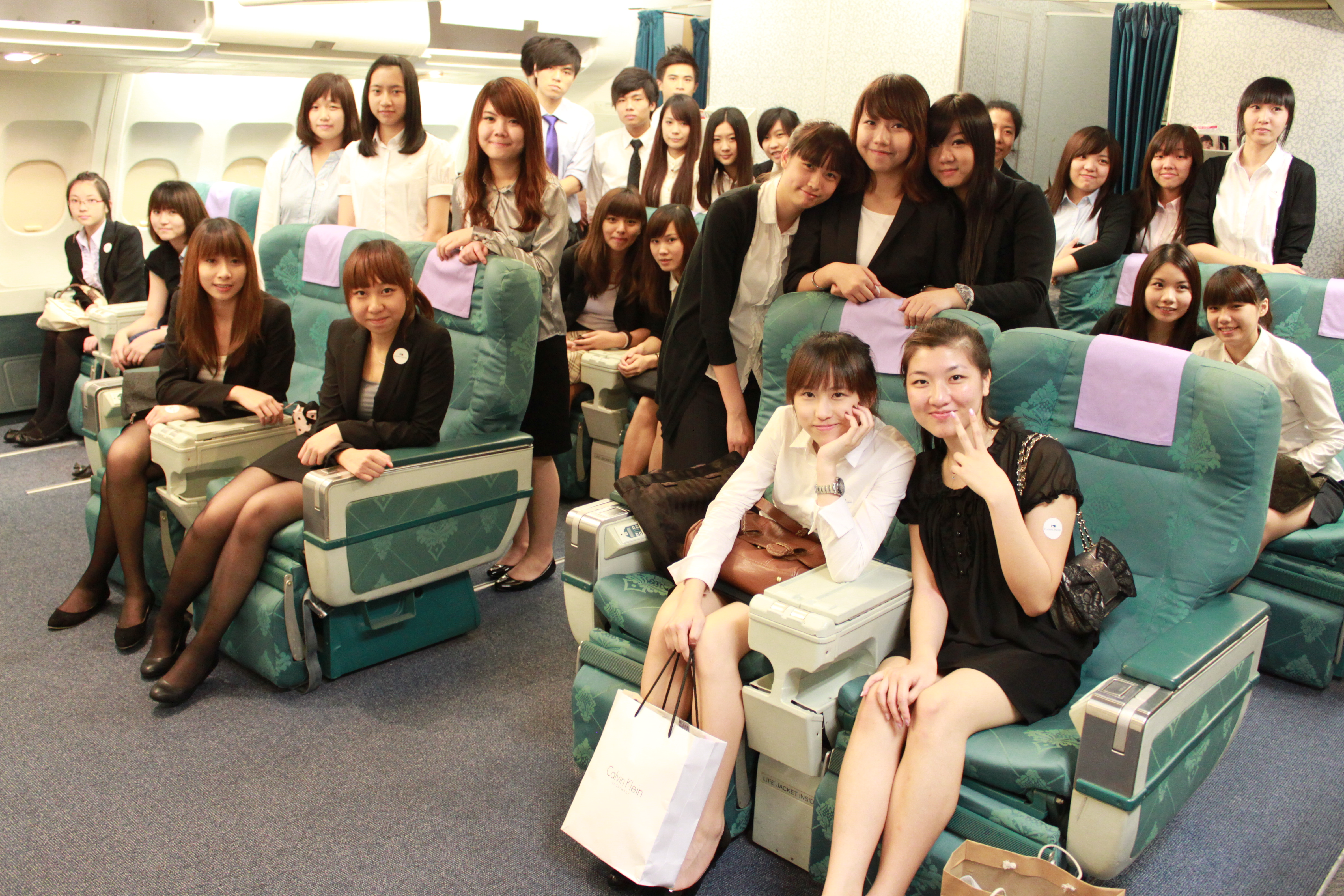 LIFE02中文（香港）: 嶺南大學持續進修學院毅進航空課證學生參觀國泰城